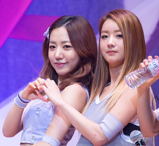 Kim Namjoo (left) and Yoon Bomi (right) at Sudden Attack Mini Concert, 29 June 2014